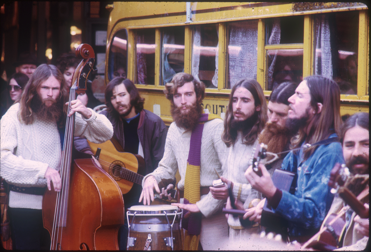 Musicians from the Love Family performing at Pike Place Market 65th anniversary celebration, 1972. From left to right: Strength Israel, Zeal Israel, Courage Israel, Reality Israel, Trust Israel, Integrity Israel, and Encouragement Israel. See our online exhibit for a history of the market. Item 36754, Pike Place Market Visual Images and Audiotapes (Record Series 1628-02), Seattle Municipal Archives.